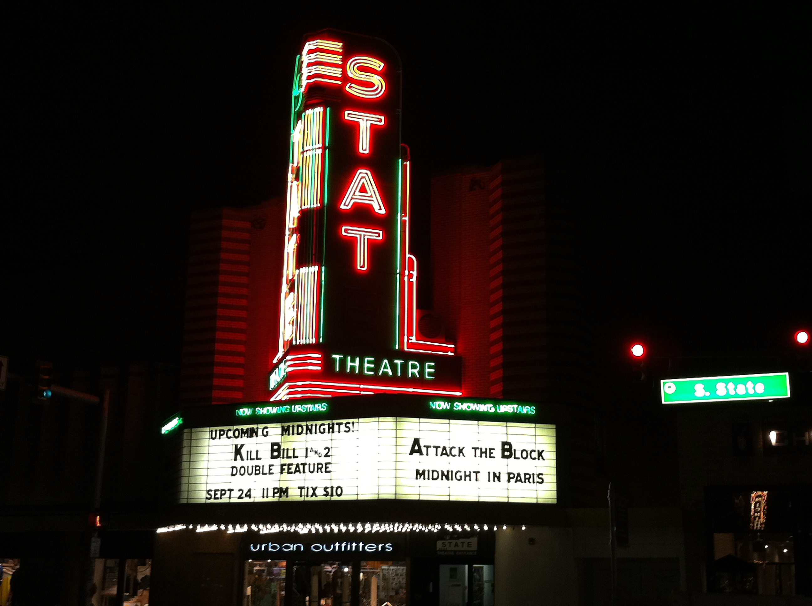 This is a picture of the State Theater in Ann Arbor, Michigan. A double feature of Kill Bill is set to play at midnight.